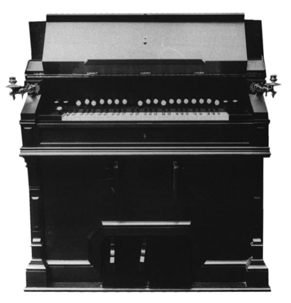 Titz Art Harmonium, appr. 1905